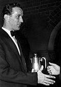 Knut Nordahl, Swedish Footballer of the year 1949